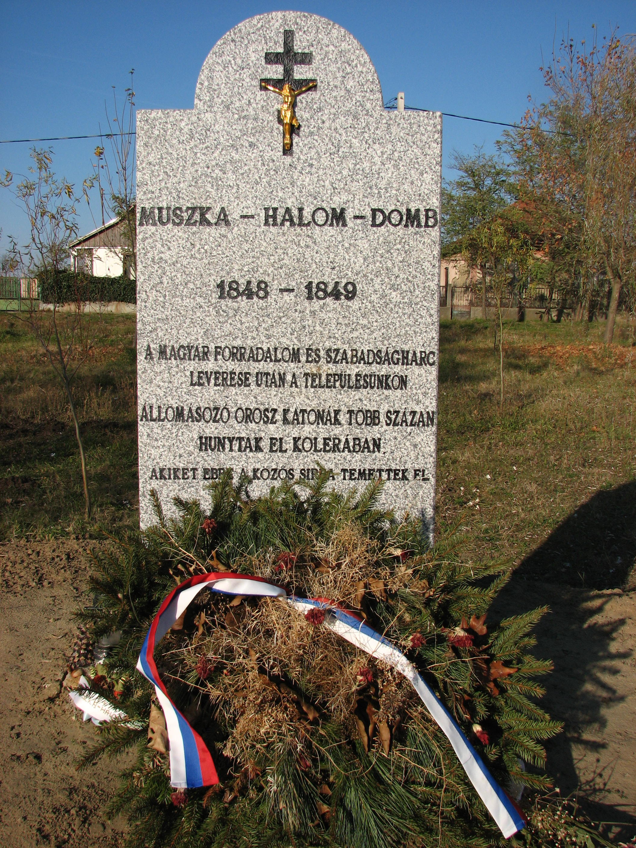 The monument commemorates the Russian soldiers who died in cholera after defeating the revolutionary Hungarian troops in the 1848-49 fights. A number of Russian soldiers were buried in Hajdúdorog, Hungary in one single mass grave. For many years the spot was marked with a simple heap which was flattened in the '80s. This monument was erected above the grave on the 28th of September, 2010. The Hungarian inscription says: "Russian Heap 1848-1849. After the end of the Hungarian Revolution and Freedom Fight several hundred of Russian soldiers who were stationed at our settlement died of cholera. They were buried in this common grave. The monument was erected by the Local Historical and Town-preserving Association of Hajdúdorog with the financial support of the Local Government of Hajdúdorog. 2010." For more information about the Russian soldiers in Hajdúdorog please visit this page (The text is in Hungarian.)